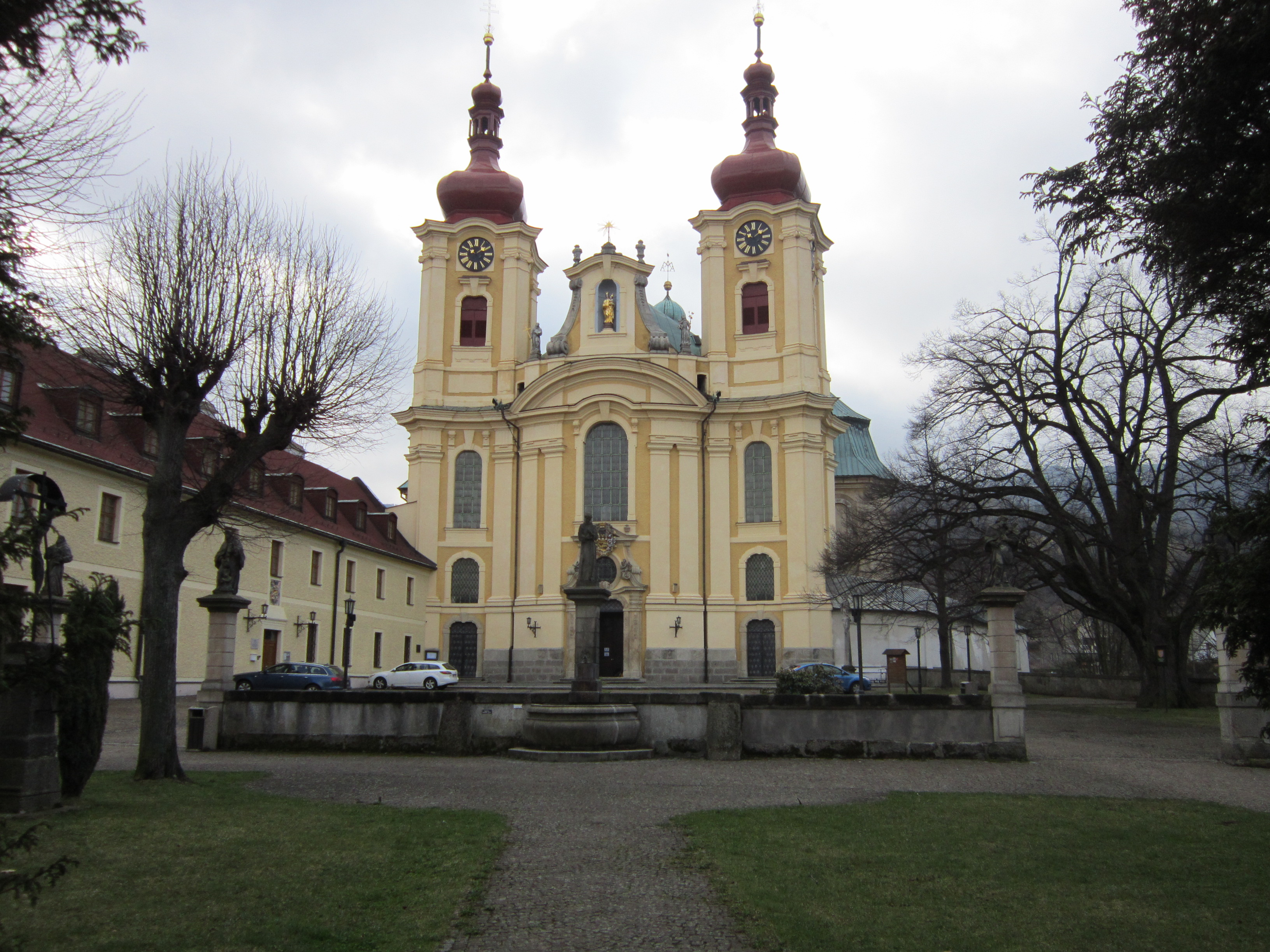 Basilica of the Visitation in Hejnice, Liberec region